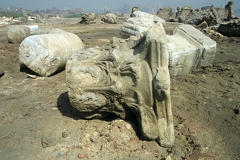 Capital of a column, Fustat Ruins, Old Cairo, Egypt